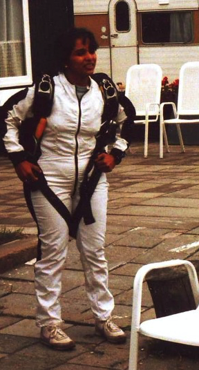 Rachel Thomas, September 1986